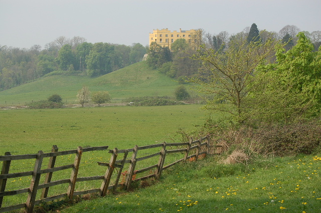 The Dower House, Stoke Park, Bristol. Now luxury flats, formerly part of Stoke Park Hospital. The Dower House is on the edge of the new housing development of Stoke Park which is just outside the Bristol City boundary into South Gloucestershire. The M32 Motorway into Bristol is in a cutting, not clearly shown on the OS Map, through the middle of this photo.